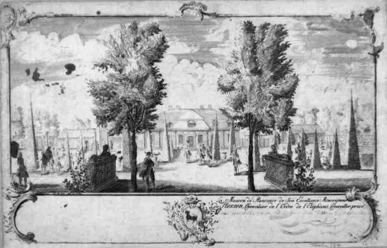 Blaagaard Manor (Blågård Slot) outside Copenhagen.